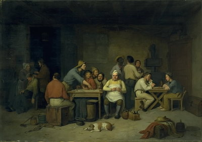 øs painting of the interior of the tavern Brokkensbod at what is now Esplanaden in Copenhagen, Denmark